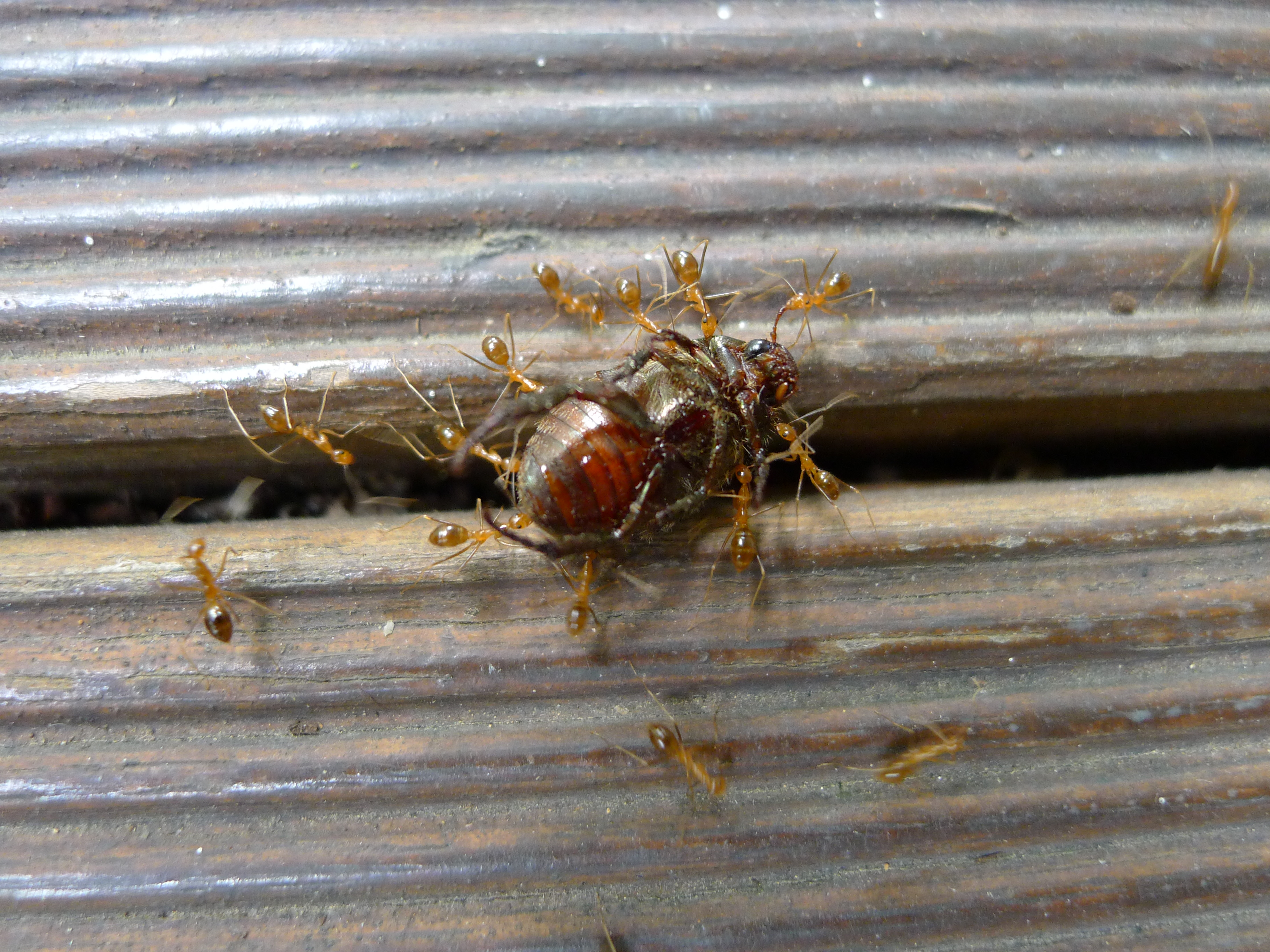 One beetle was no match for a host of Yellow crazy ants, Anoplolepis gracilipes. Beetle=0, Yellow crazy ants=1. Poon Saan, Christmas Island, Australia, April 2011.